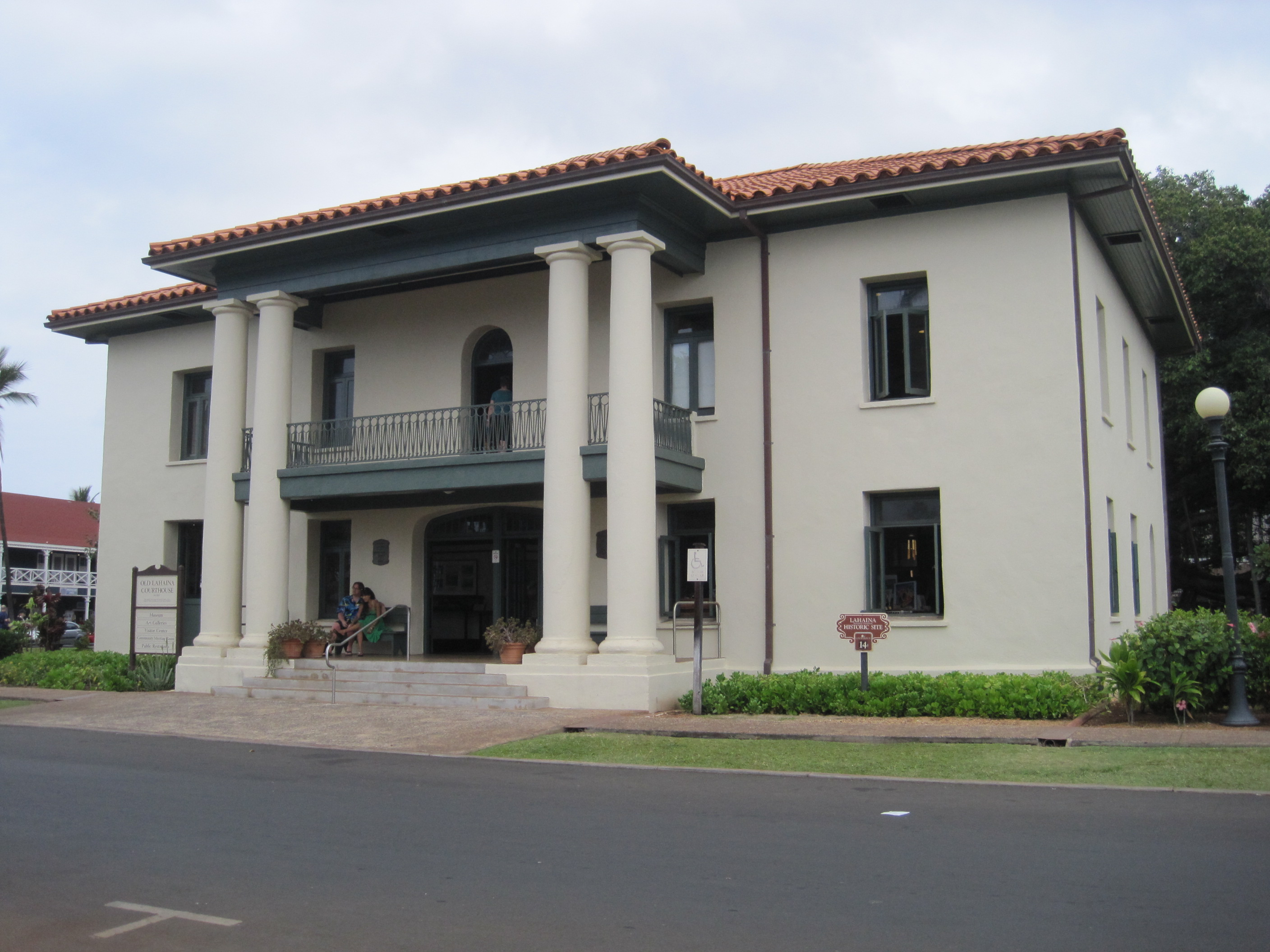 Old Courthouse, Lahaina Historic District, Lahaina, Hawaii, built 1859, on National Register of Historic Places